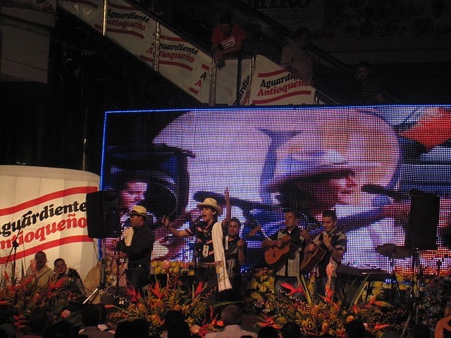 Trova Paisa en Medellín, Feria de las Flores 2010.